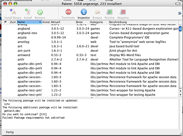 Image of the FinkCommander Main Window. Screenshot taken by me on 2005-10-05.